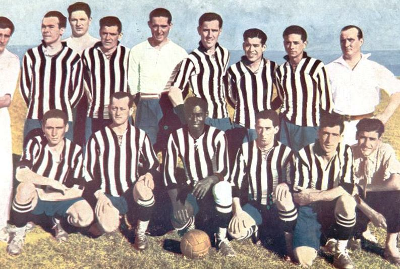 El Porvenir campeón Primera B 1927